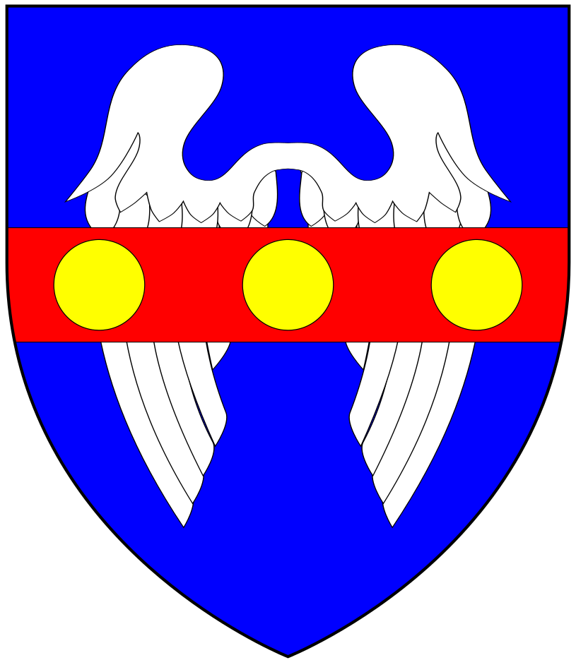 Arms of Calwoodleigh of Calwoodleigh (modern: Calverleigh) in Devon: Azure, two wings conjoined argent over all on a fess gules three bezants. (Vivian, Lt.Col. J.L., (Ed.) The Visitations of the County of Devon: Comprising the Heralds' Visitations of 1531, 1564 & 1620, Exeter, 1895, p.132)